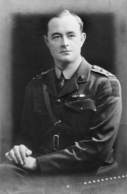 PORTRAIT OF LIEUTENANT COLONEL J.J. SCANLAN, DSO AND BAR, 59TH BATTALION.